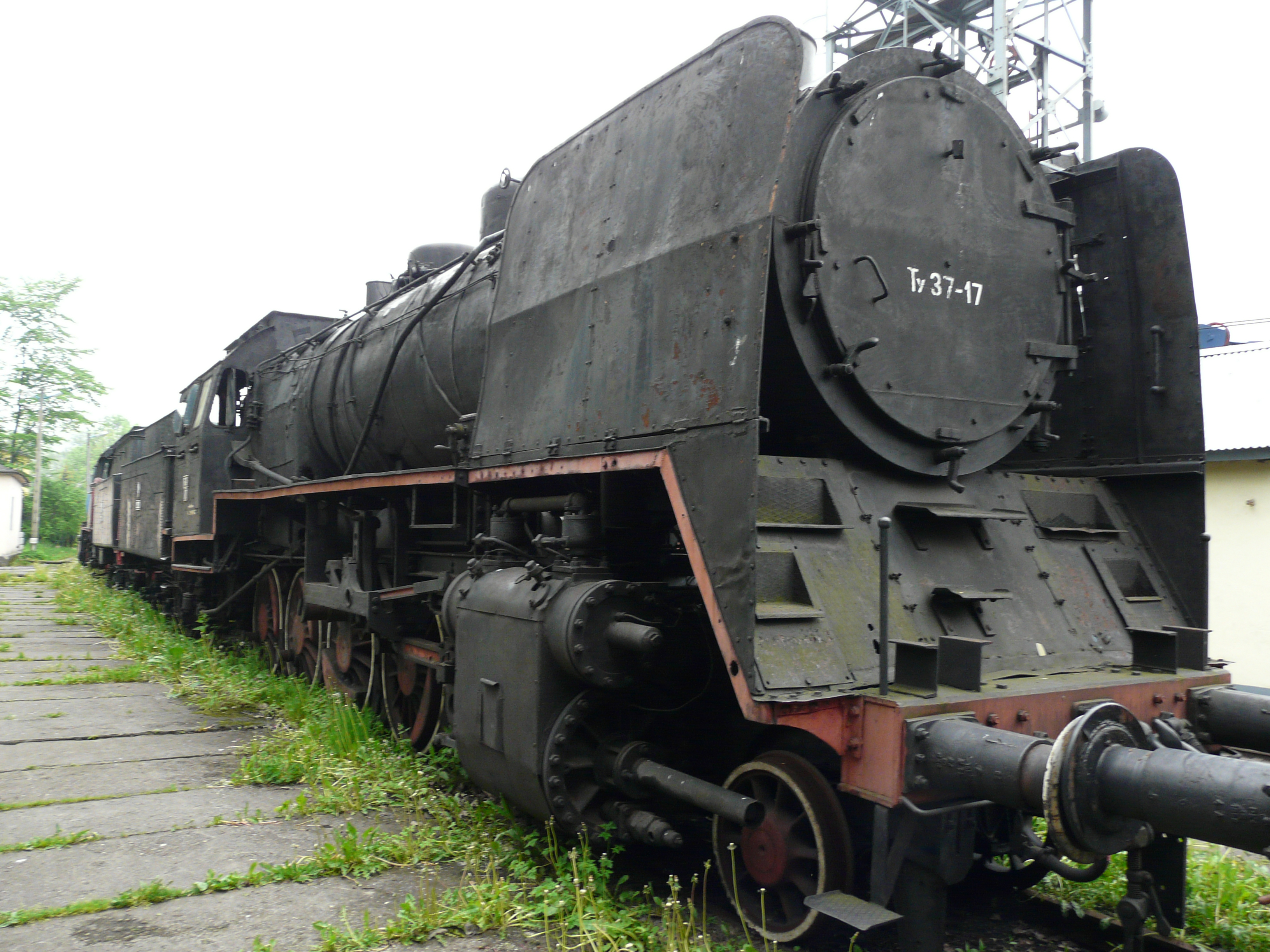 Chabówka Rolling-Stock Heritage Park